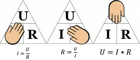 Helps remember Ohm’s law.Ohm's law triangle